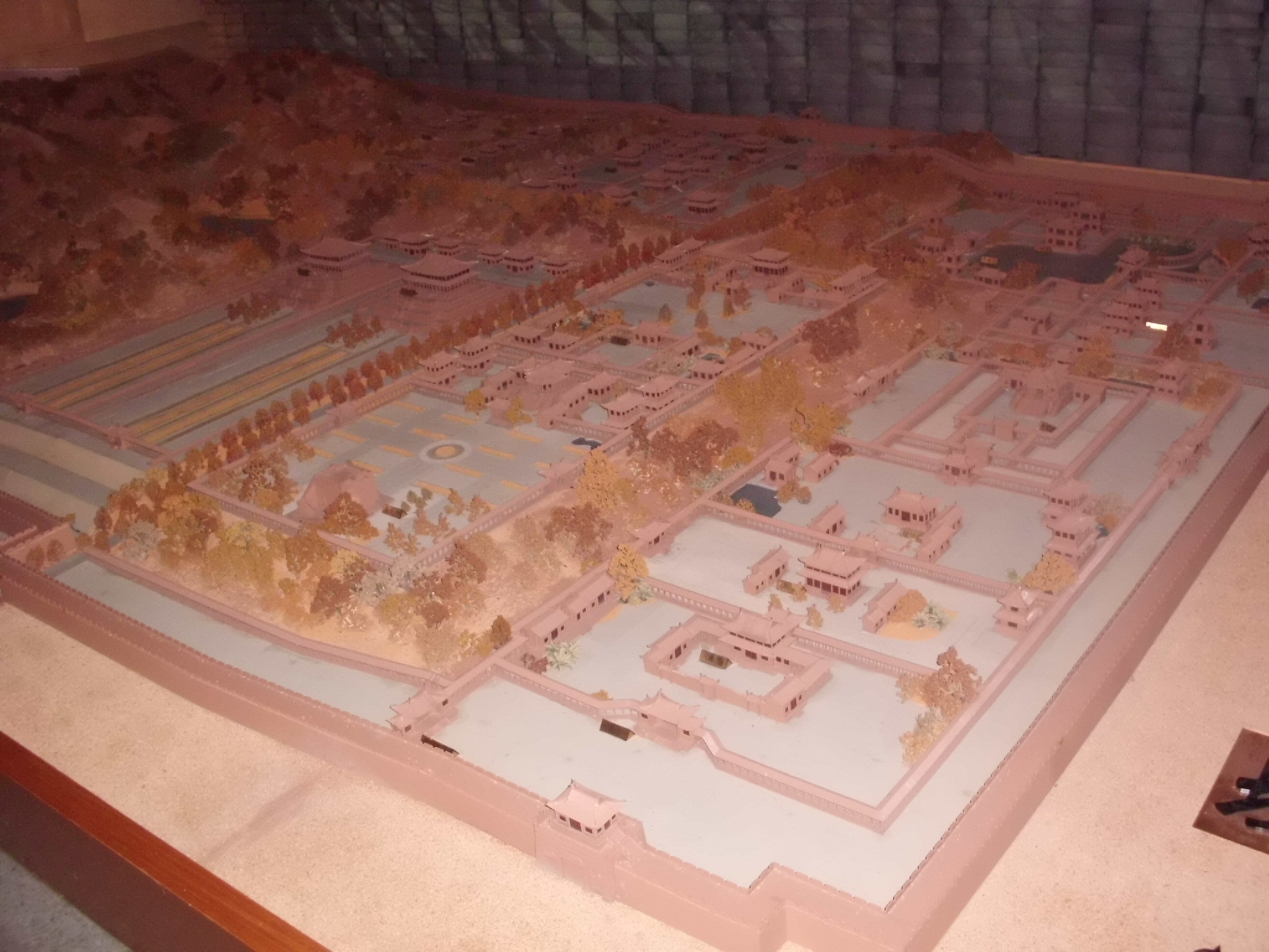 Hangzhou Urban Planning Exhibition Hall